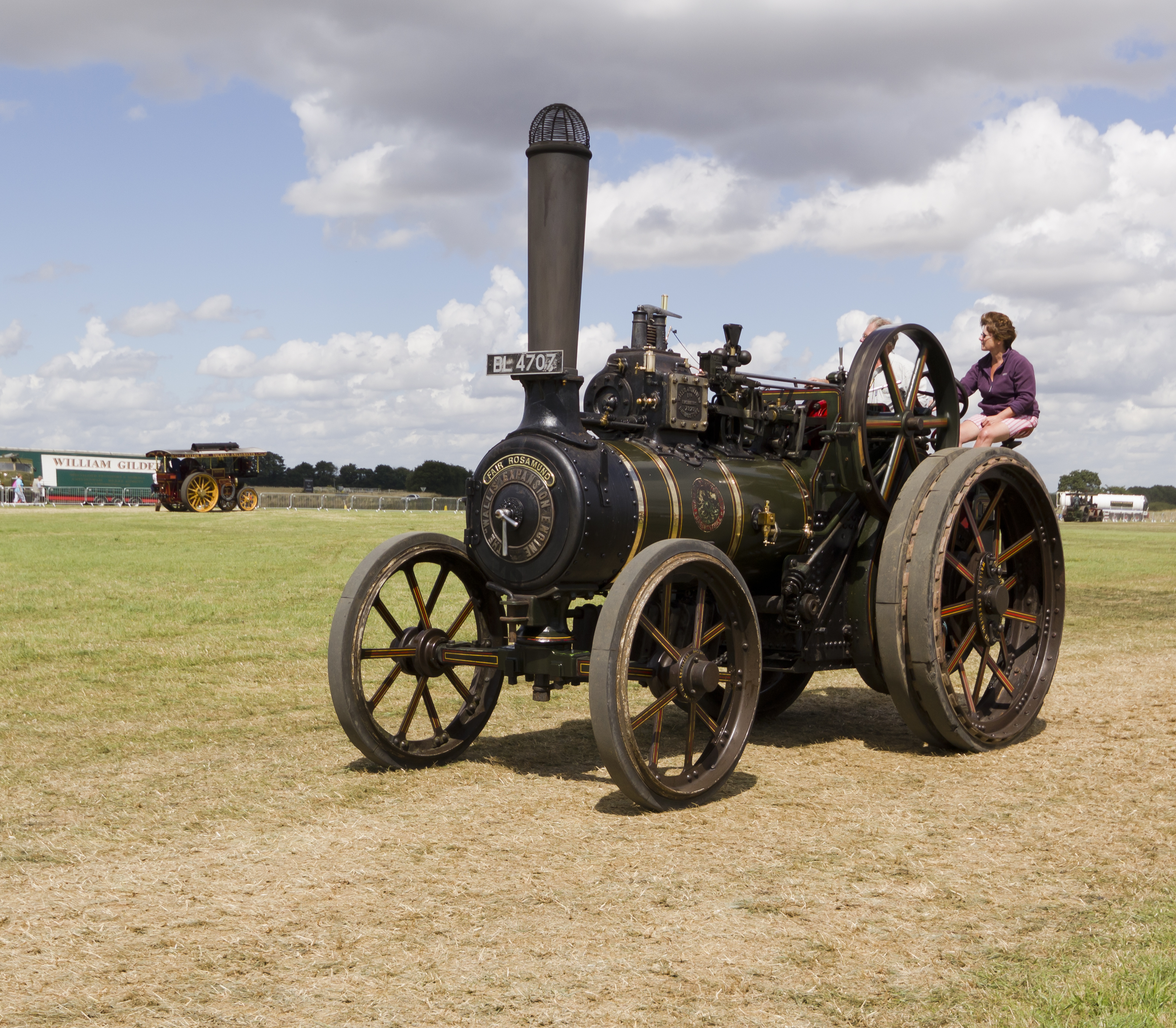 Wallis & Steevens Traction Engine "Fair Roasmund" BL 4707, Gloucestershire Steam & Vintage Extravaganza 2013